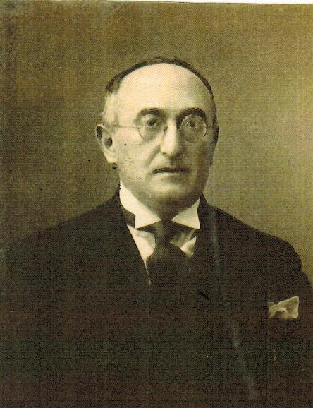 Shalom Horowitz